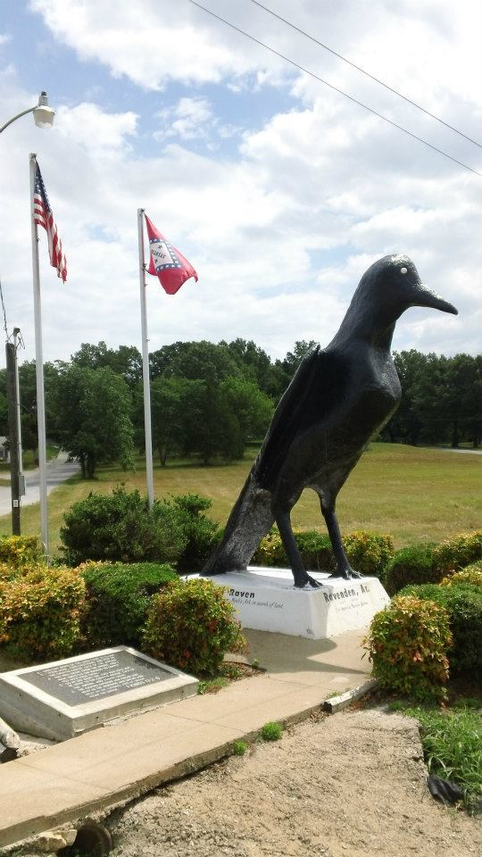 Raven statue on highway going through Ravenden Arkansas